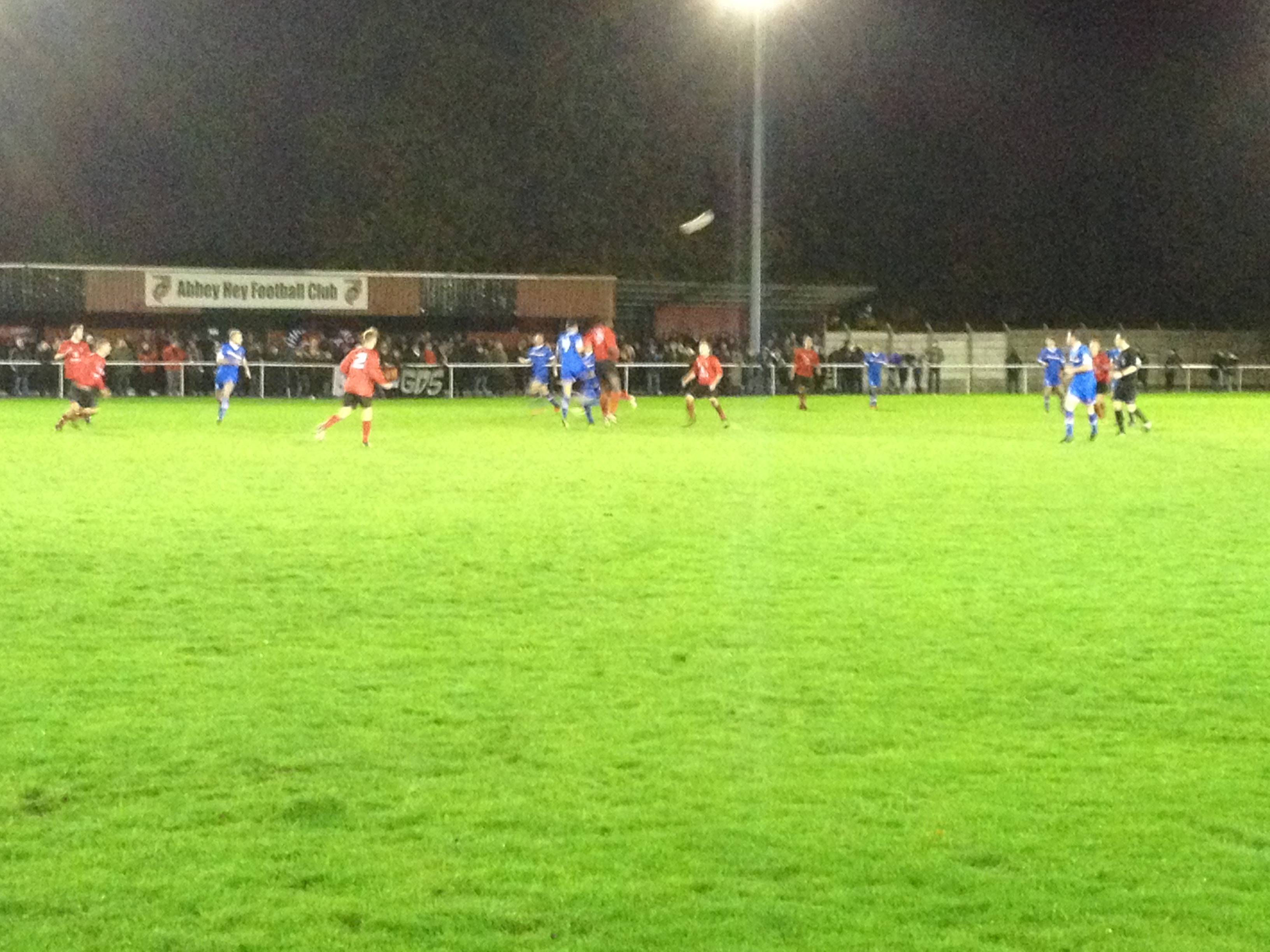 Abbey Hey F.C. vs F.C. United of Manchester in a Manchester Premier Cup quarter final fixture at The Abbey Stadium on 16 November 2016